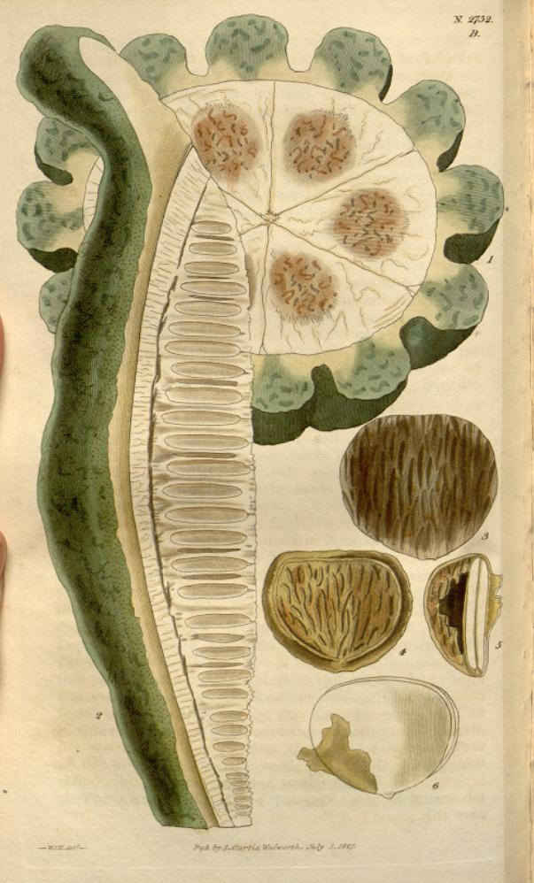 Illustration of a fruit of Telfairia pedata